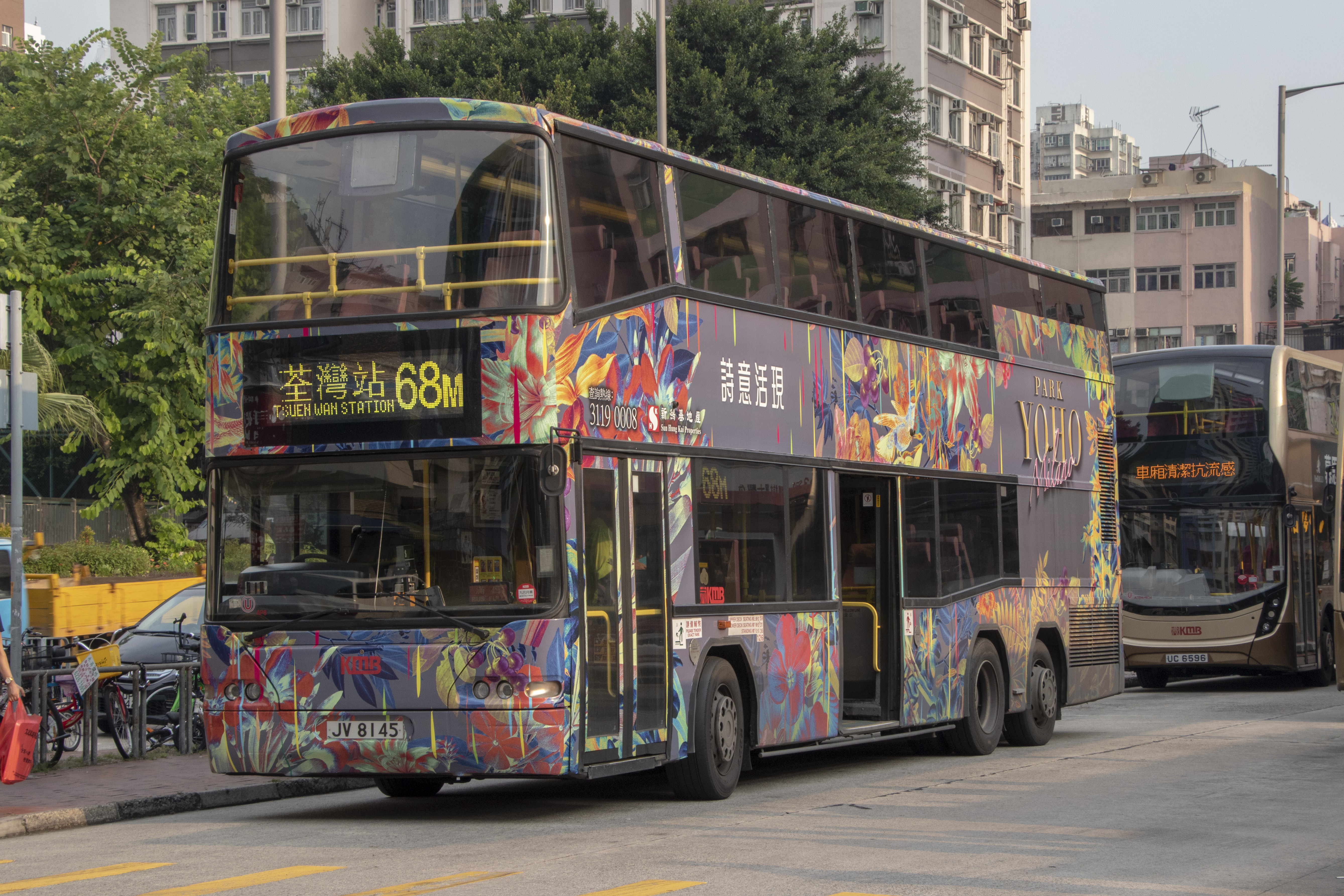 One of the last Neoplan Centroliner remaining in the KMB fleet